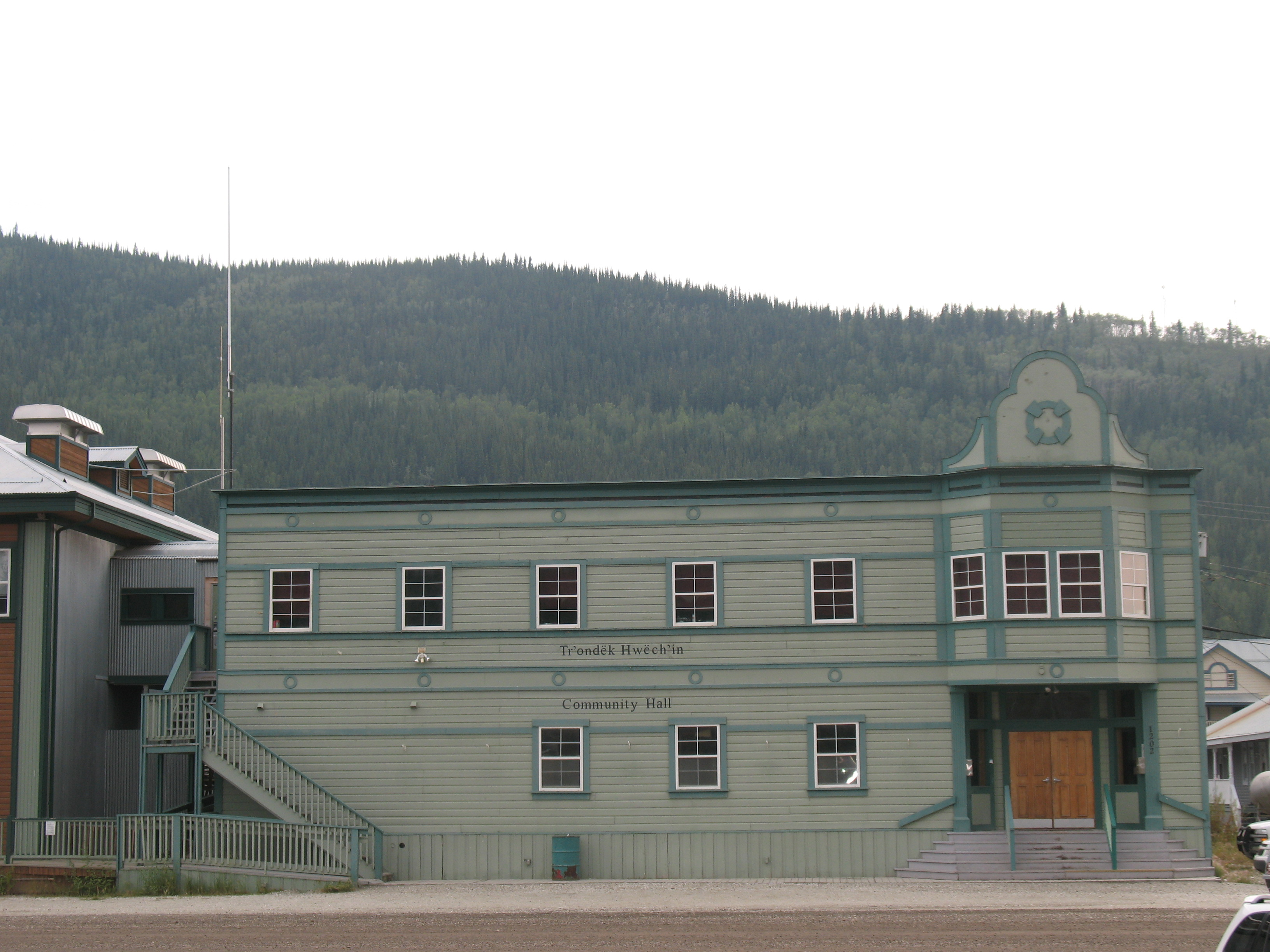 Community Hall of the Tr'ondek Hwech'in in Dawson, Yukon